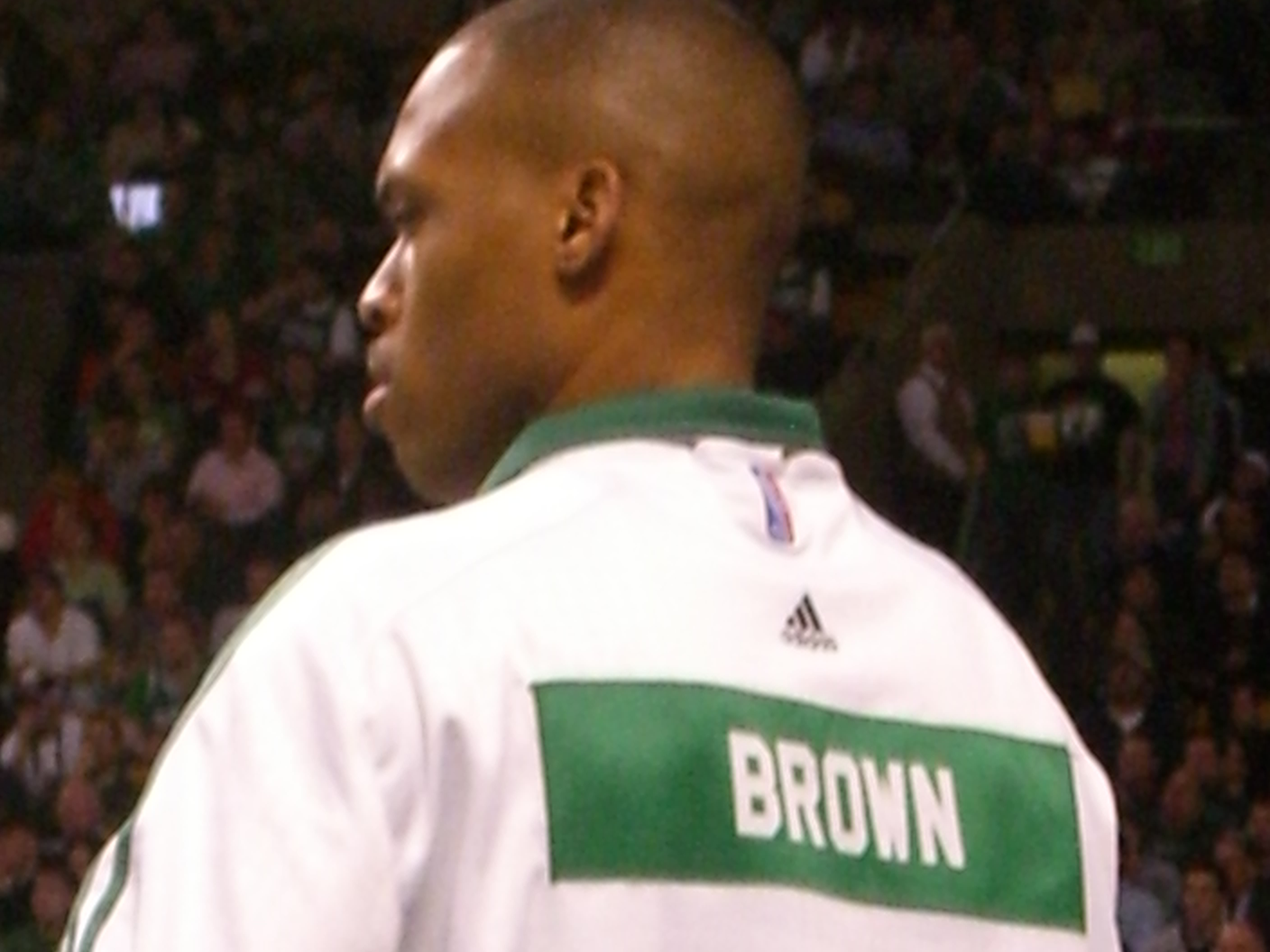 PJ Brown at the Celtics/Philadelphia game 03/24/2008.